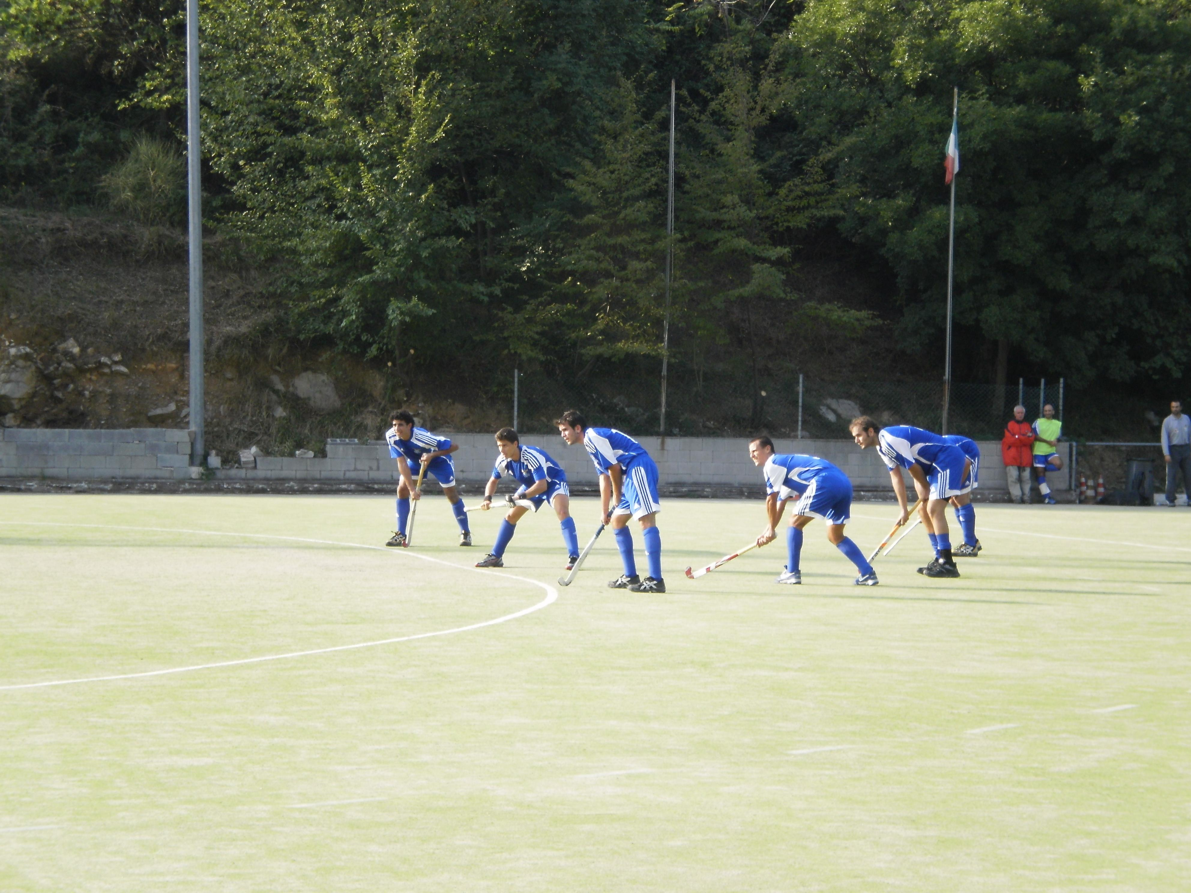 HC Superba vs SS Lazio (field hockey)